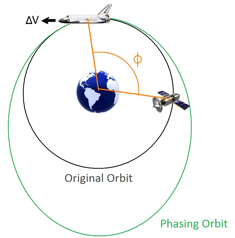 co-orbital rendezvous example